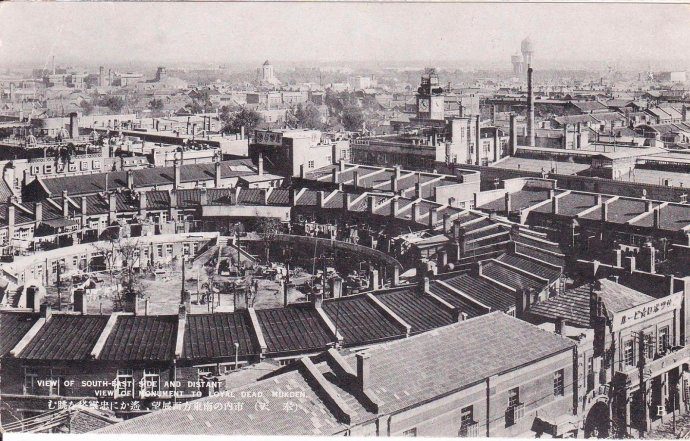 Kasuga-cho market